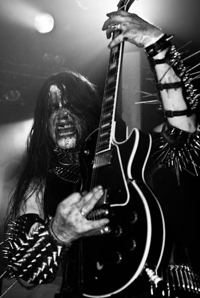 Infernus, live at Hole in The Sky - Bergen Metal Fest 2009